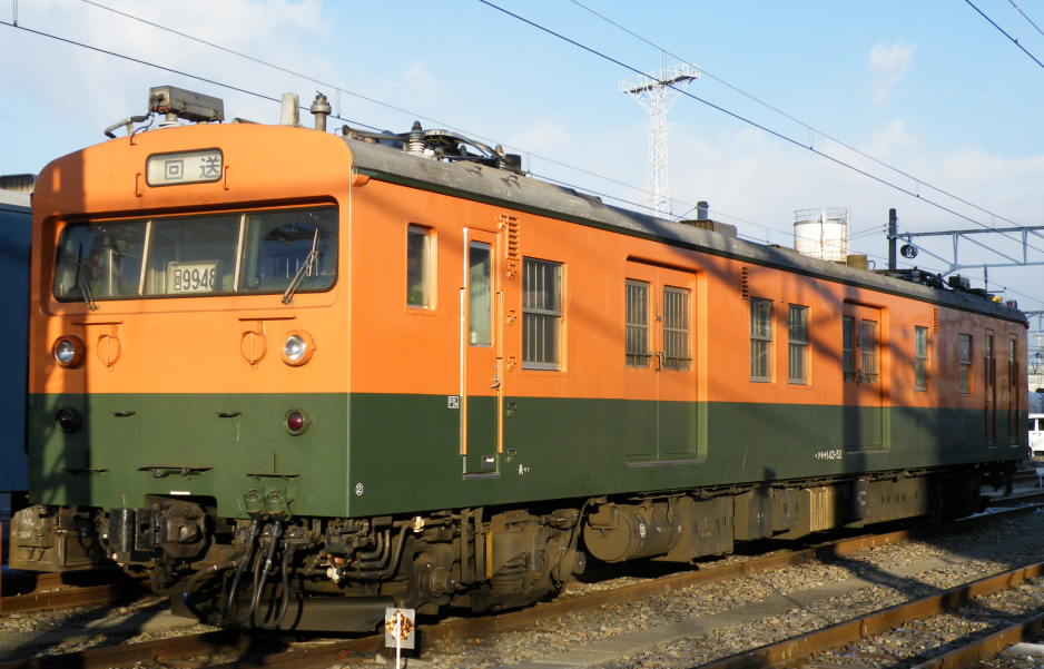 Type kumoya 143(No.52) of JR East at Matsumoto Sta., Matsumoto city, Japan.